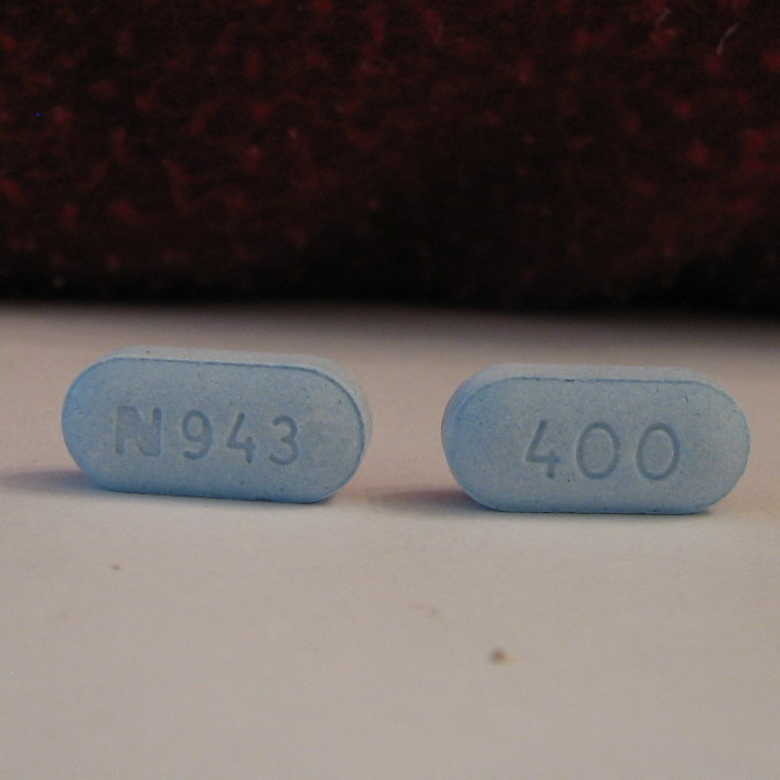 400 mg tablets of the antiviral drug acyclovir (aciclovir).